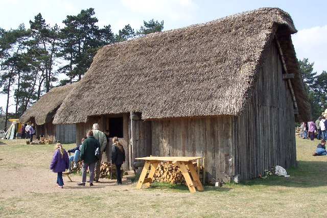 Anglo-Saxon village at West Stow. The Anglo-Saxon village at West Stow is a recreation, on the same site, of one which existed around 420-650AD.